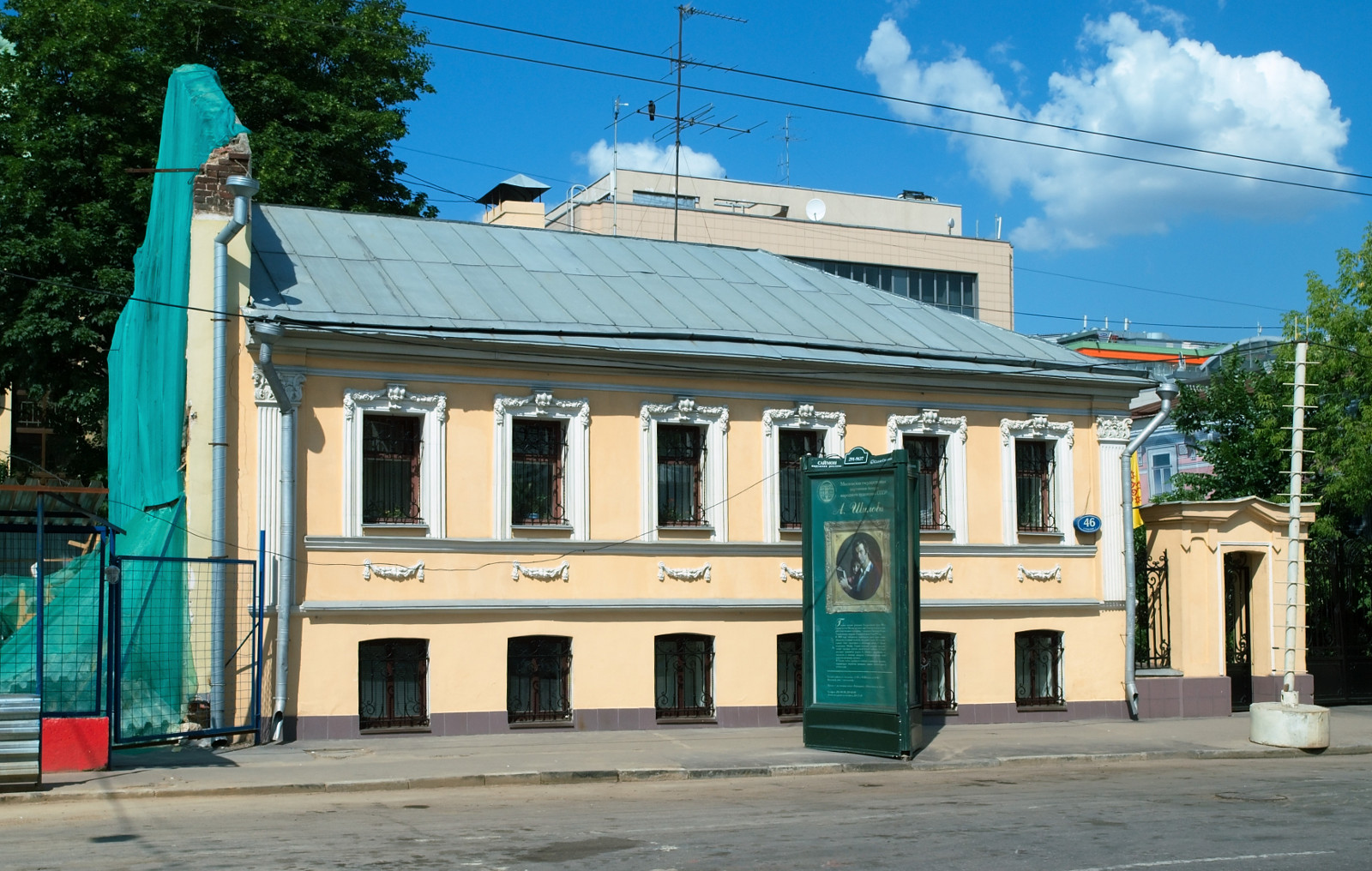 Bolshaya Ordynka Street, Moscow.